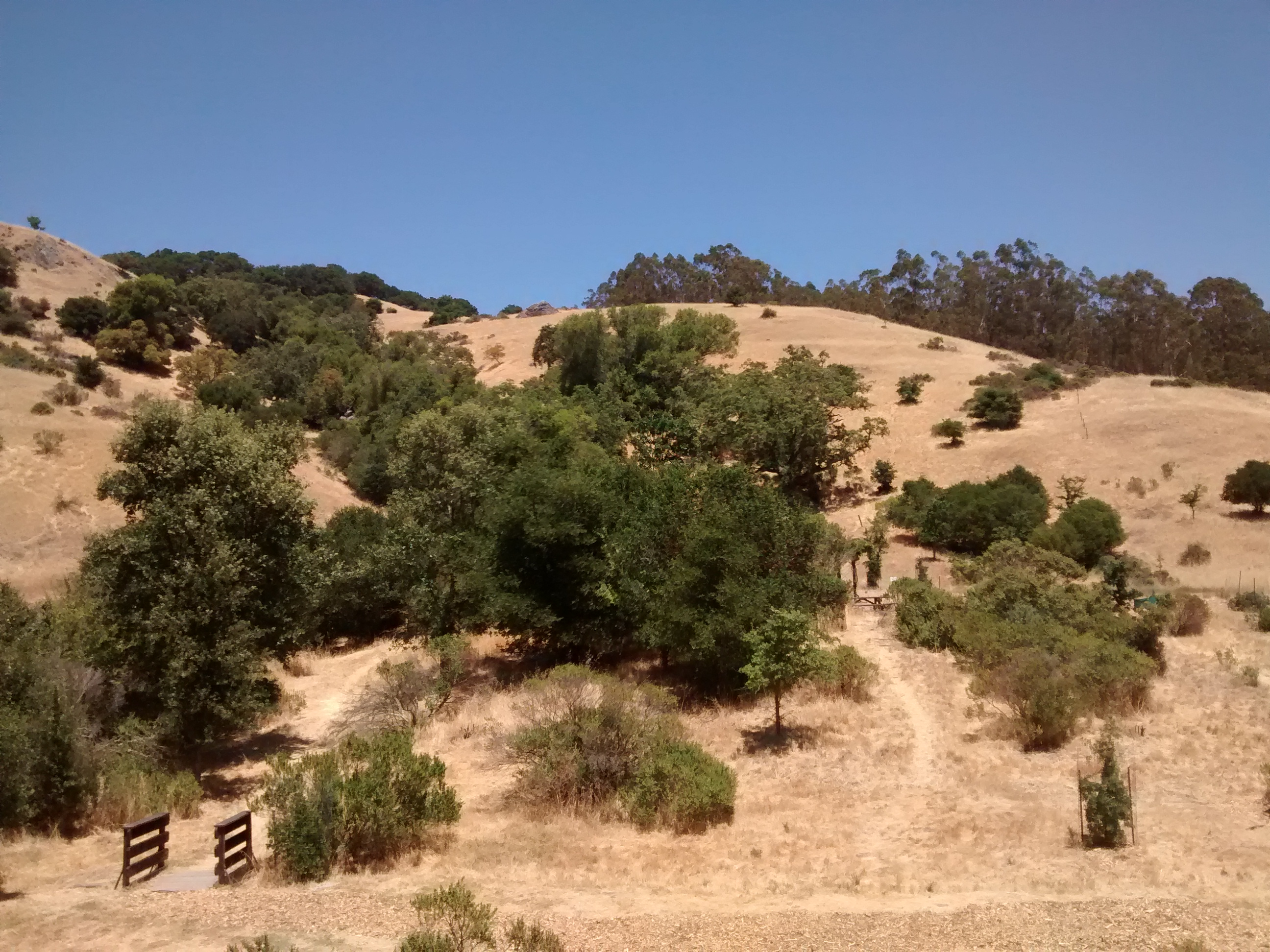 Sorich Ranch Open Space Park in San Anselmo, California.